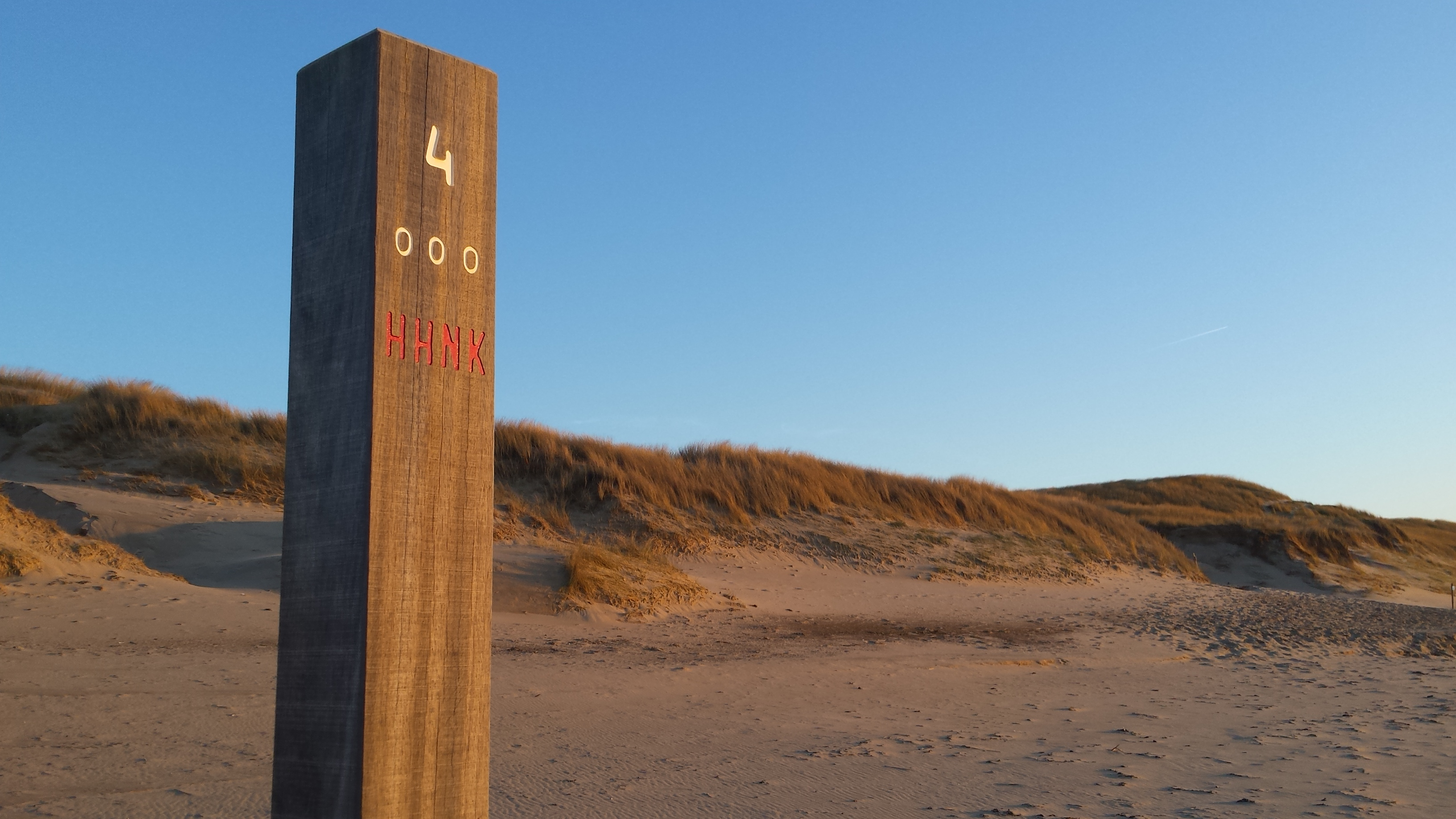 Beach pole in Den Helder, The Netherlands. Used for measurements.